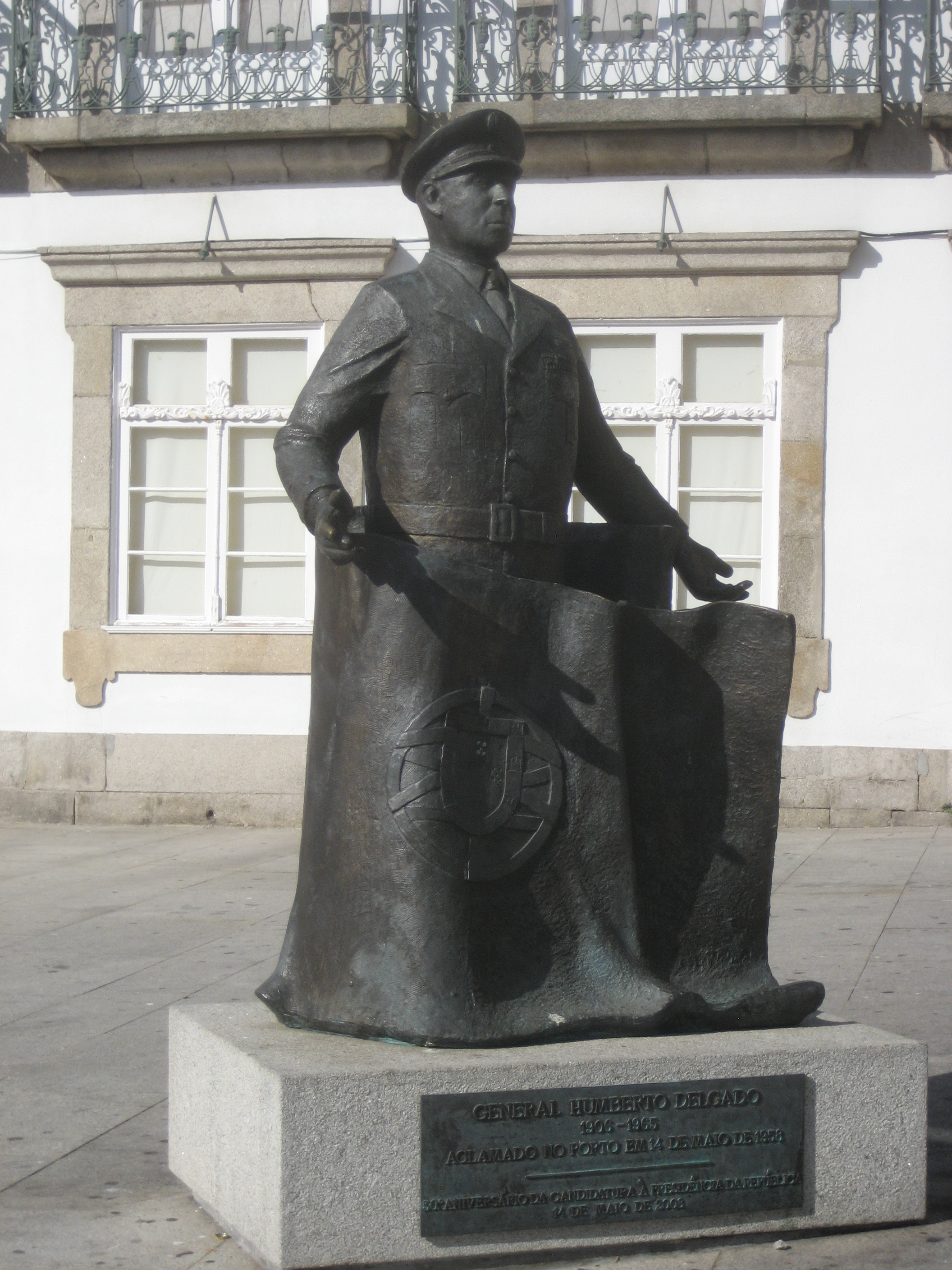 Statue of Humberto Delgado by José Rodrigues. Praça de Carlos Alberto, Porto (Portugal)